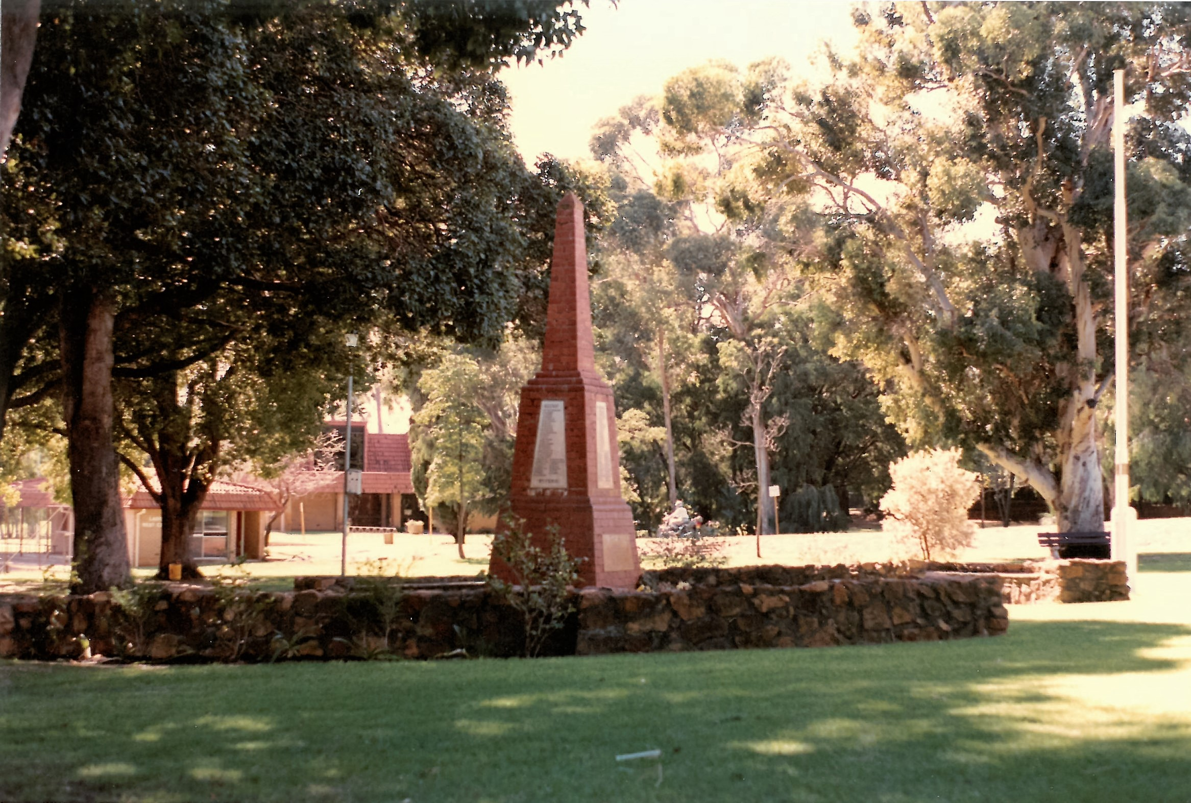 Armadale War Memorial with library in background (1988)